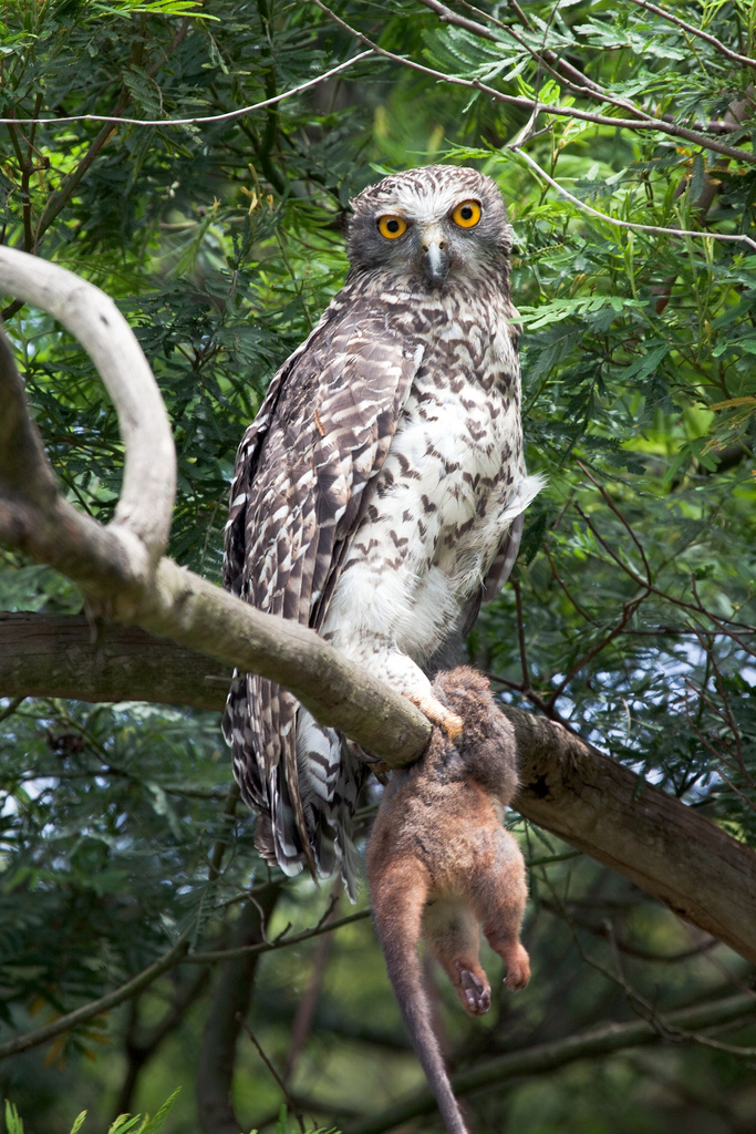 A Powerful Owl in Lane Cove National Park, Sydney, Australia. It has a kill in its talons.